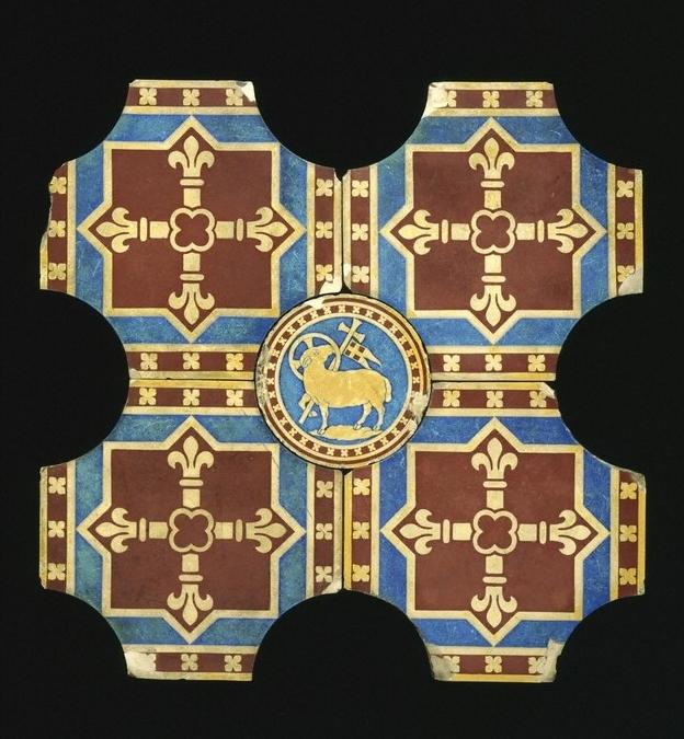 Tile, 1845-1851, Augustus Welby Northmore Pugin V&A Museum no. C.1A-1978 Techniques: Earthenware, with inlaid glazed decoration (encaustic) Artist/designer: Augustus Welby Northmore Pugin, Minton & Co. Place: Stoke-on-Trent, England Dimensions: Height 27 cm, Width 27 cm Object Type: Encaustic tiles were produced in large quantities from the mid-19th century. The principal market for these tiles was for churches, both new and restored. Design & Designing: This tile is one of five (C.1 to D-1978) designs originally been made by Pugin for use at the church of St Giles, Cheadle, between 1845 and 1846. However, as would often happen, the designs were re-used for other buildings. These particular tiles came from St George's Roman Catholic Cathedral in Southwark, London. Places: The splendid new church of St George's in Southwark was the work of the Gothic revival architect and designer, Augustus Welby Northmore Pugin (1812-1852).It was consecrated in 1848 and in 1850 became the first Roman Catholic Cathedral in England since the Reformation. Catastrophic bombing raids in 1941 destroyed large parts of the cathedral, which was subsequently rebuilt and re-opened in 1958. The substantial damage to these tiles, which were laid in the sanctuary of the cathedral, occurred during the 1941 bombing raid.